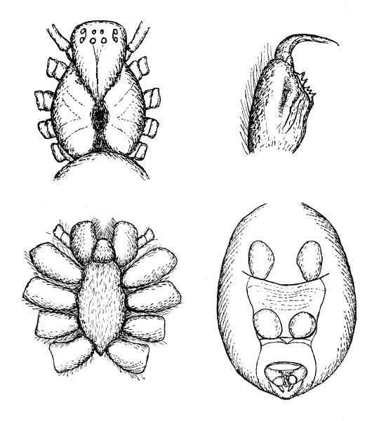 Drawing of Hickmania troglodytes (=Ectatosticta troglodytes) morphology: top left – dorsal view of prosoma; top right – chelicera; bottom left – ventral view of prosoma; bottom right – ventral view of opisthosoma.